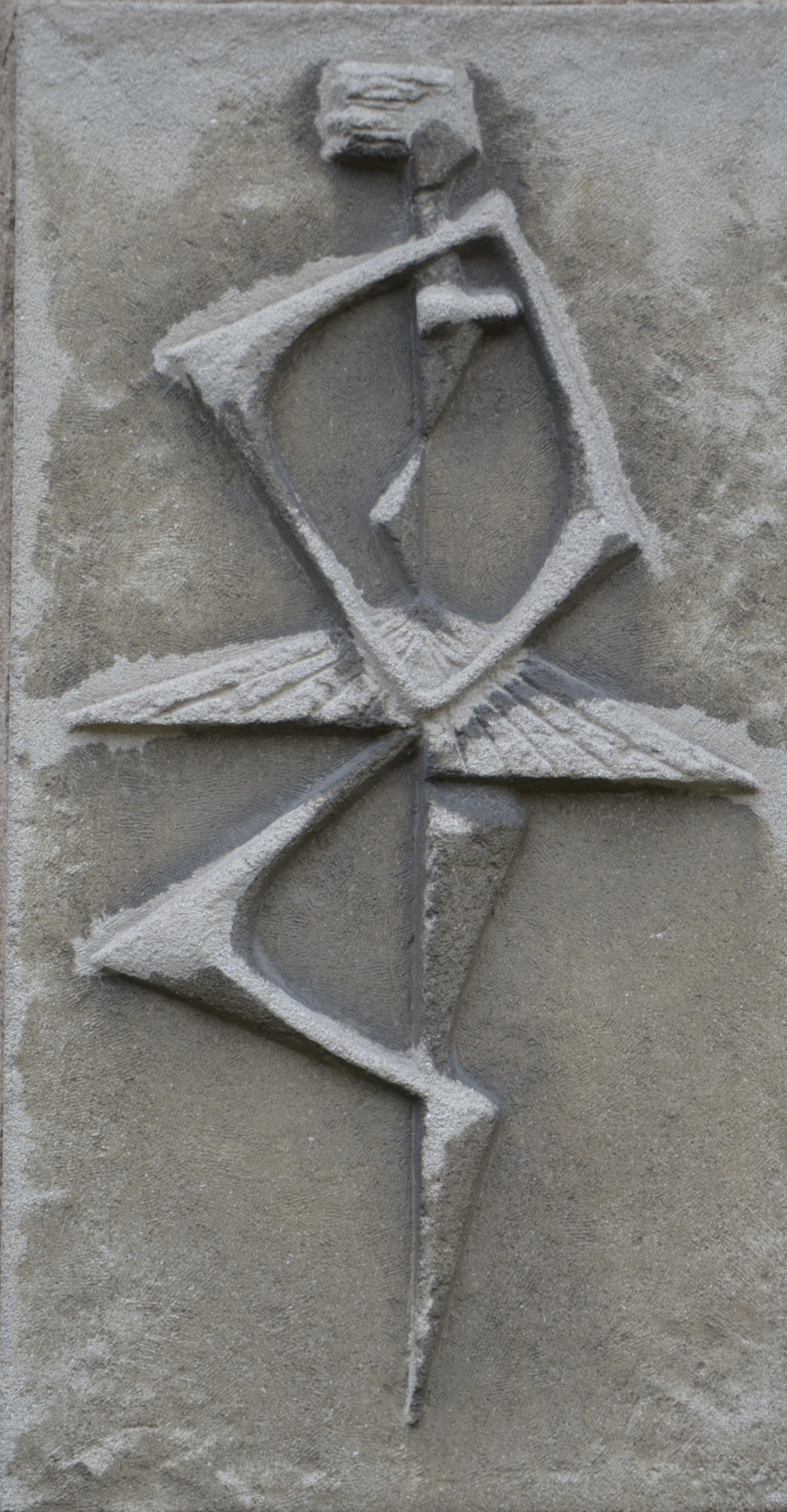 Colombine, relief by Arne Jones, Vasaloppsvägen 60, Västertorp, Stockholm, Sweden